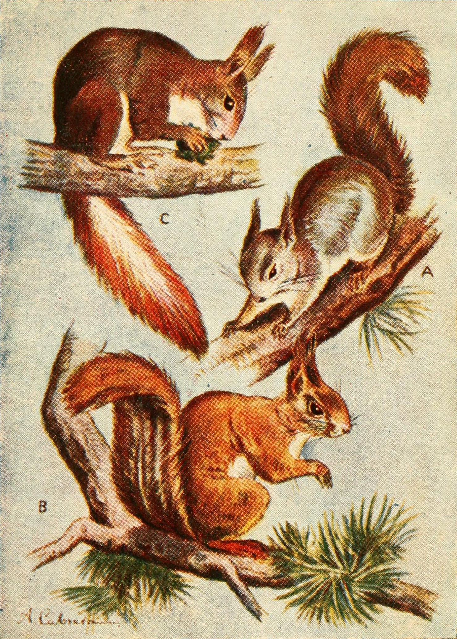 Various red squirrel subspecies; A) S. s. vulgaris from Sweden, B) S. s. fuscoater from Germany, C) S. s. infuscatus from central Spain